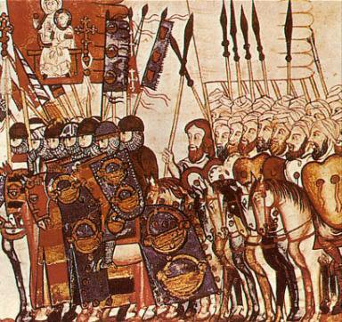 Cantiga 181. The Battle of Marrakesh from the Cantigas de Santa Maria